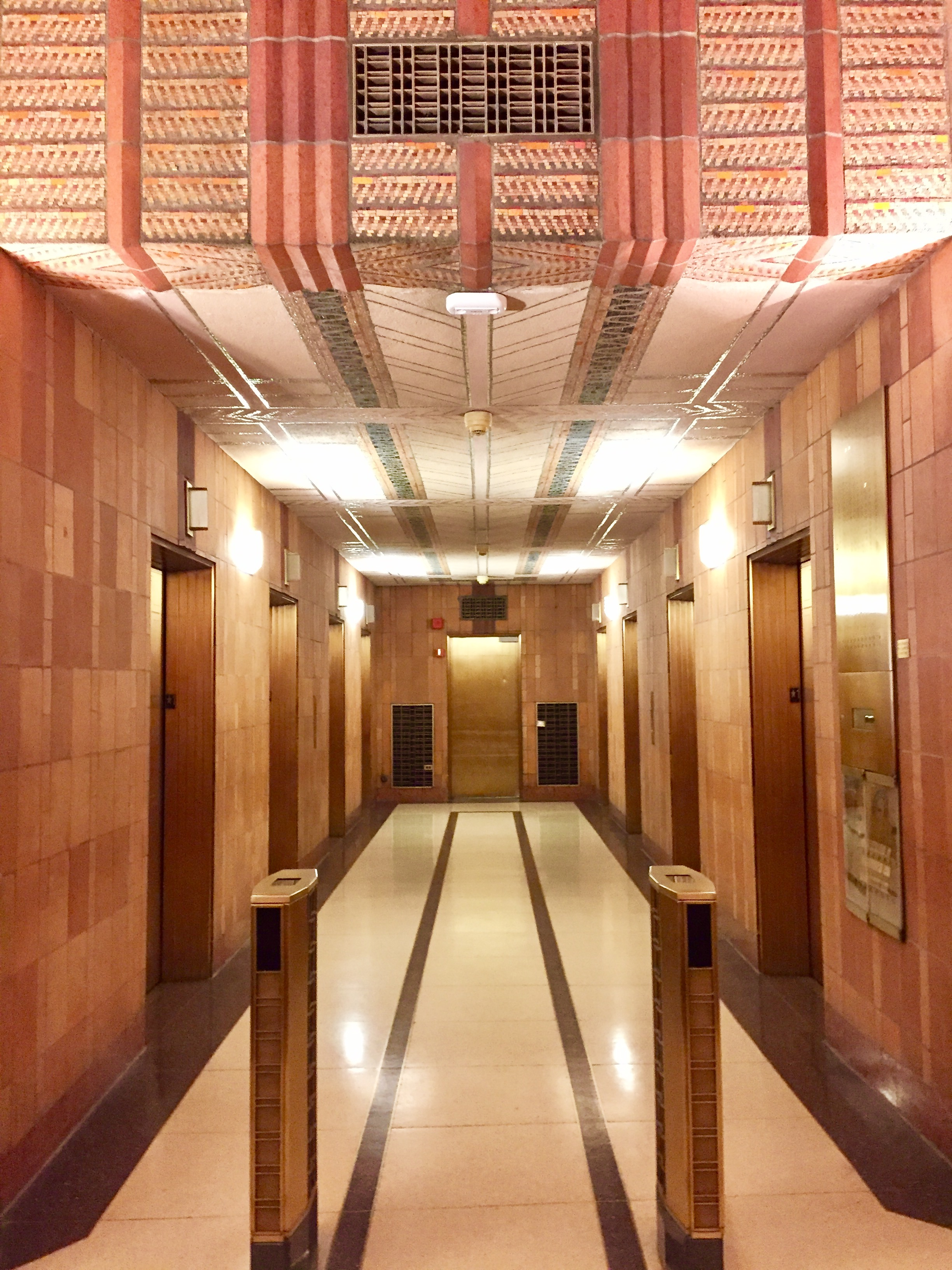 Art Deco Elevator Corridor AT&T Long Distance Building Lobby Tile Mosaic Designed by Hildreth Meière Interior Design Tile MuralSite: AT&T Long Distance Building